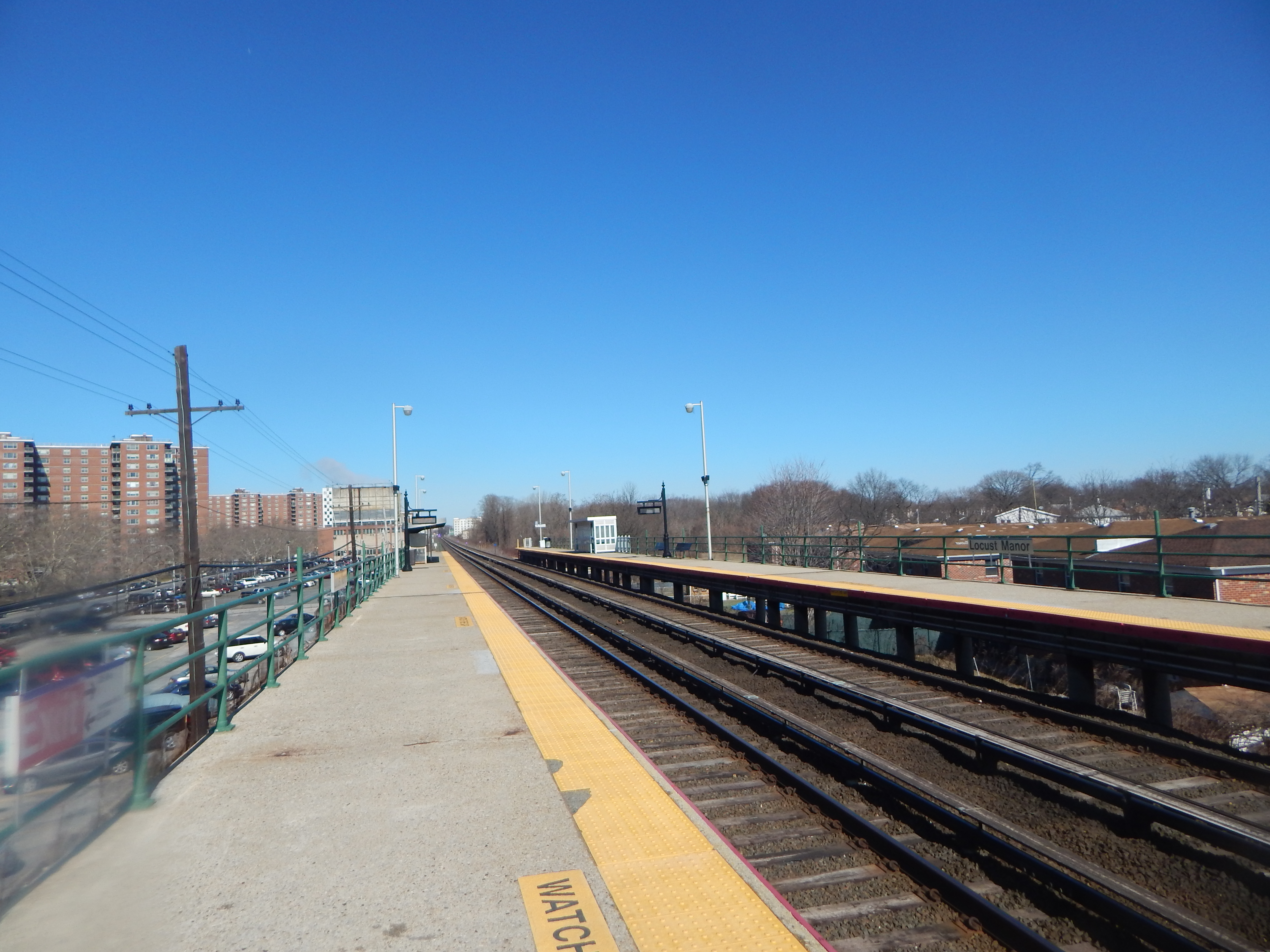 The Locust Manor station in Locust Manor, Queens, New York.